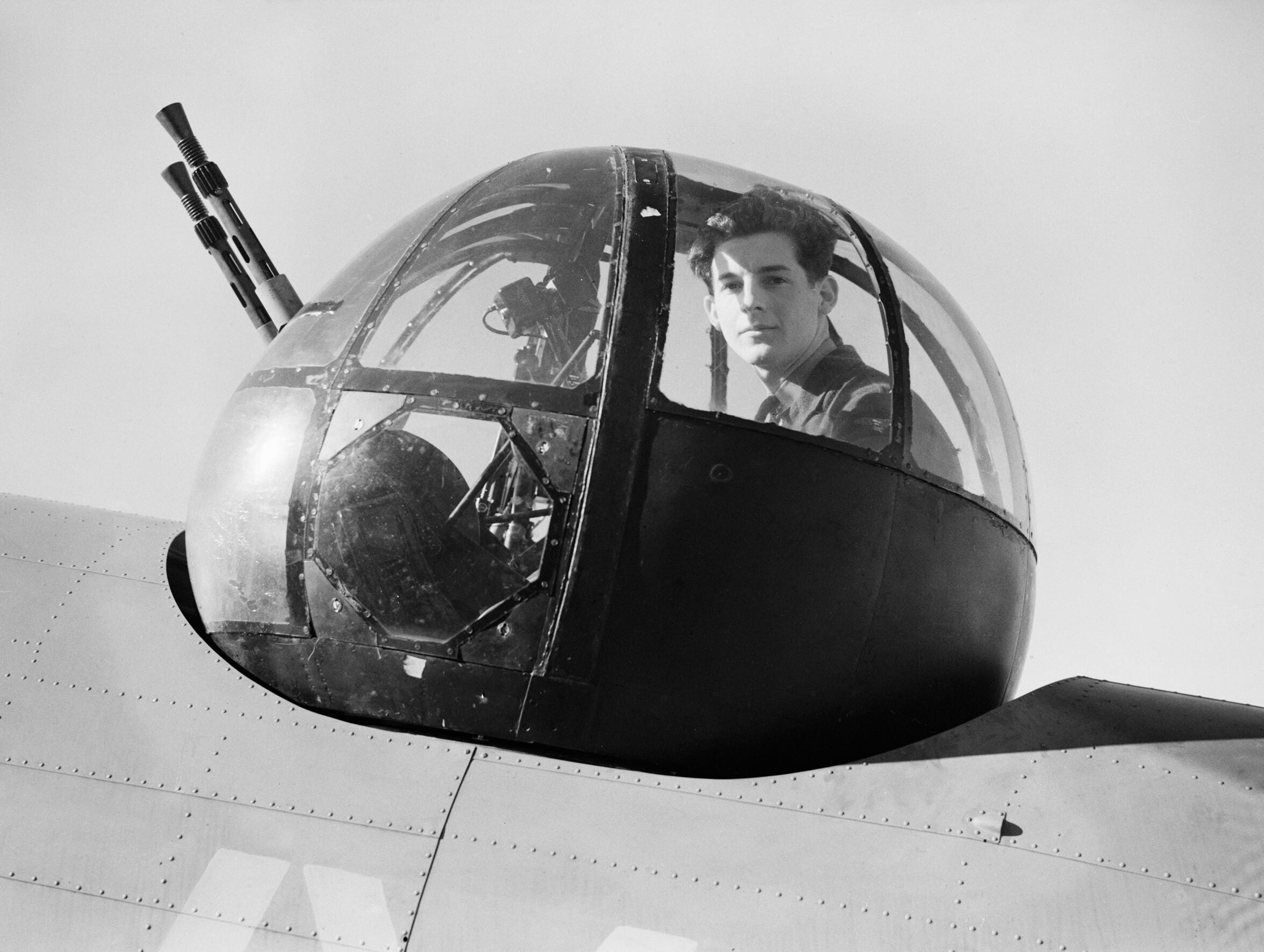 Leading Aircraftman Walter 'Spike' Caulfield in the turret of a Lockheed Hudson of No 206 Squadron, June 1940. Leading Aircraftman Walter 'Spike' Caulfield in the turret of a Hudson of No 206 Squadron. Caulfield was awarded the Distinguished Flying Medal for an action on the evening of 31 May 1940, in which his aircraft fought off several Me 109s over Dunkirk.